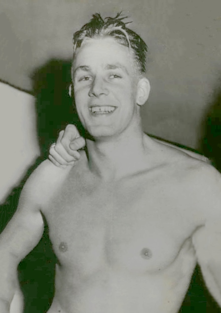 1956 Press Photo First Swim Meet Tie in 33 Year History of NCAA - sbs05304